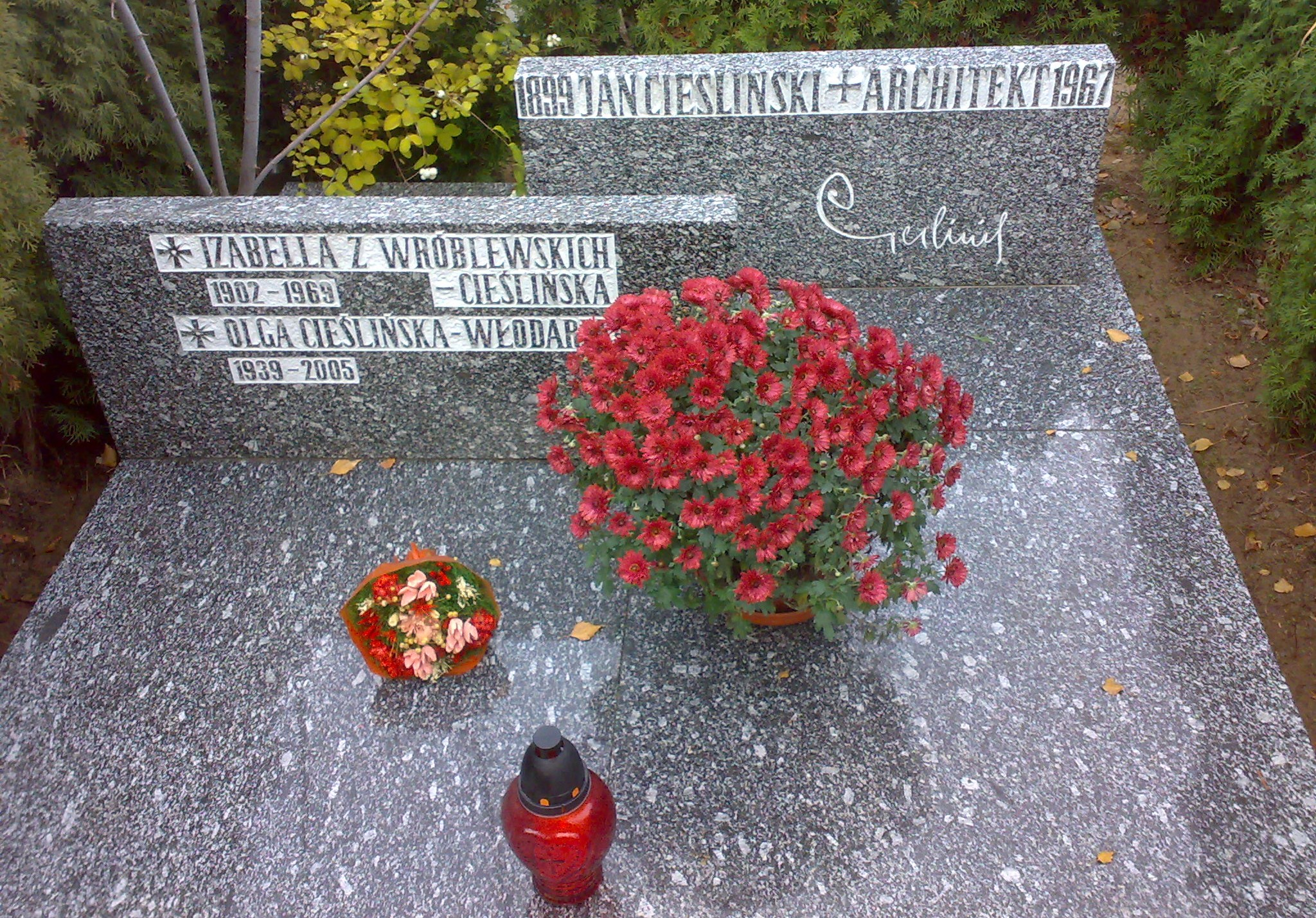 Tomb of Jan Cieślinski (architekt) in Junikowo-Nekropoly in Poznan